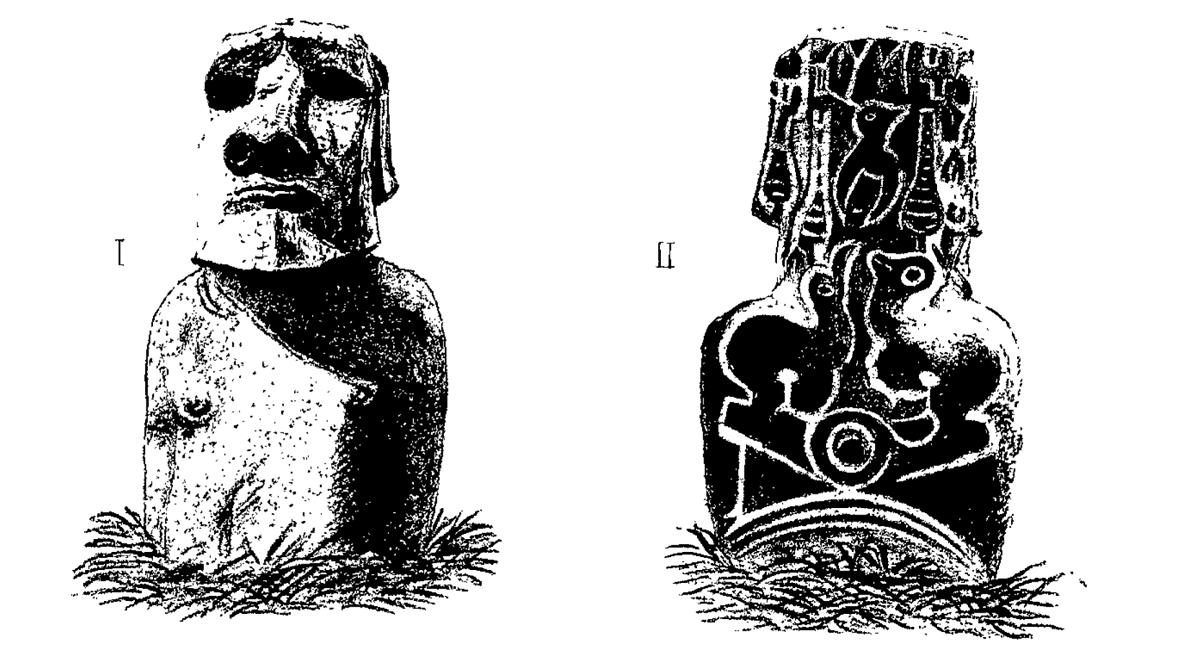 Front and rear view of moai Hoa Hakananai'a.